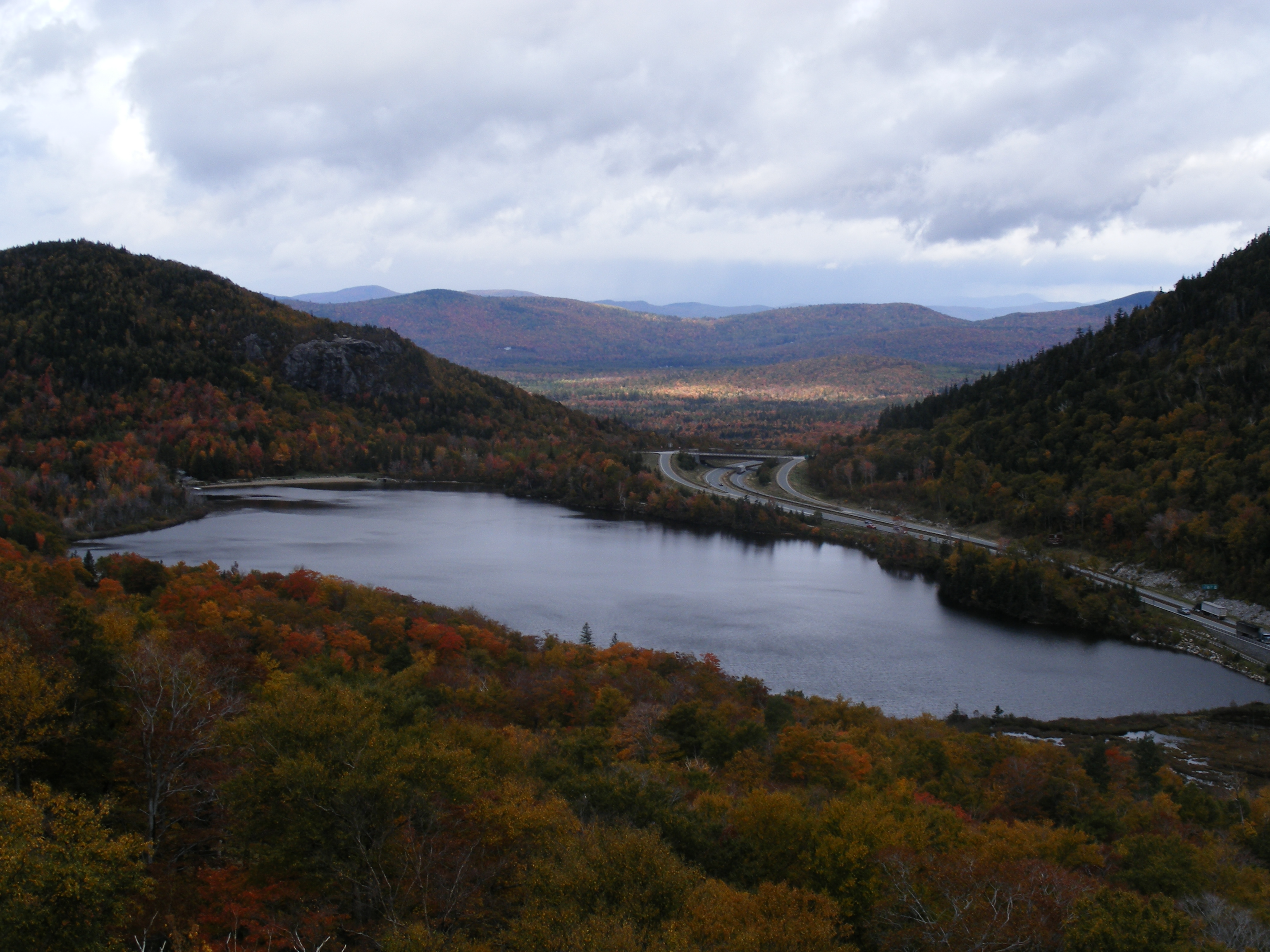 Picture of Echo Lake in New Hampshire, from The Cannon Mountain Aerial Gondola.